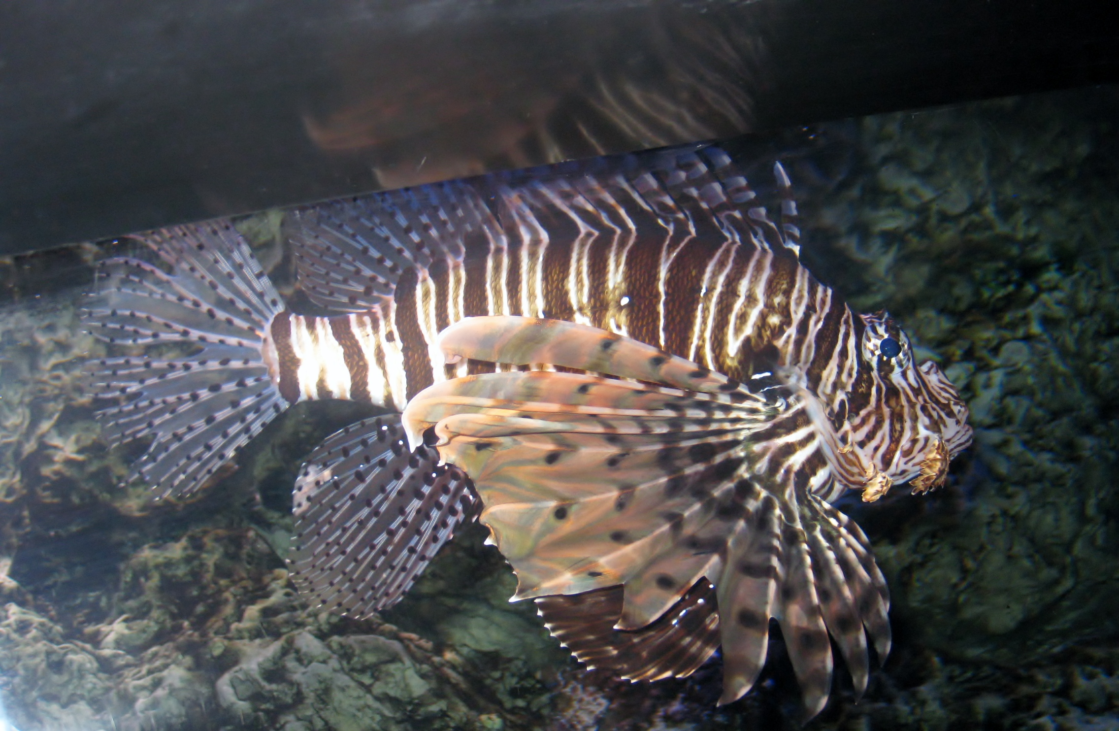 Scientific center view , Clicks By irvin calicut .